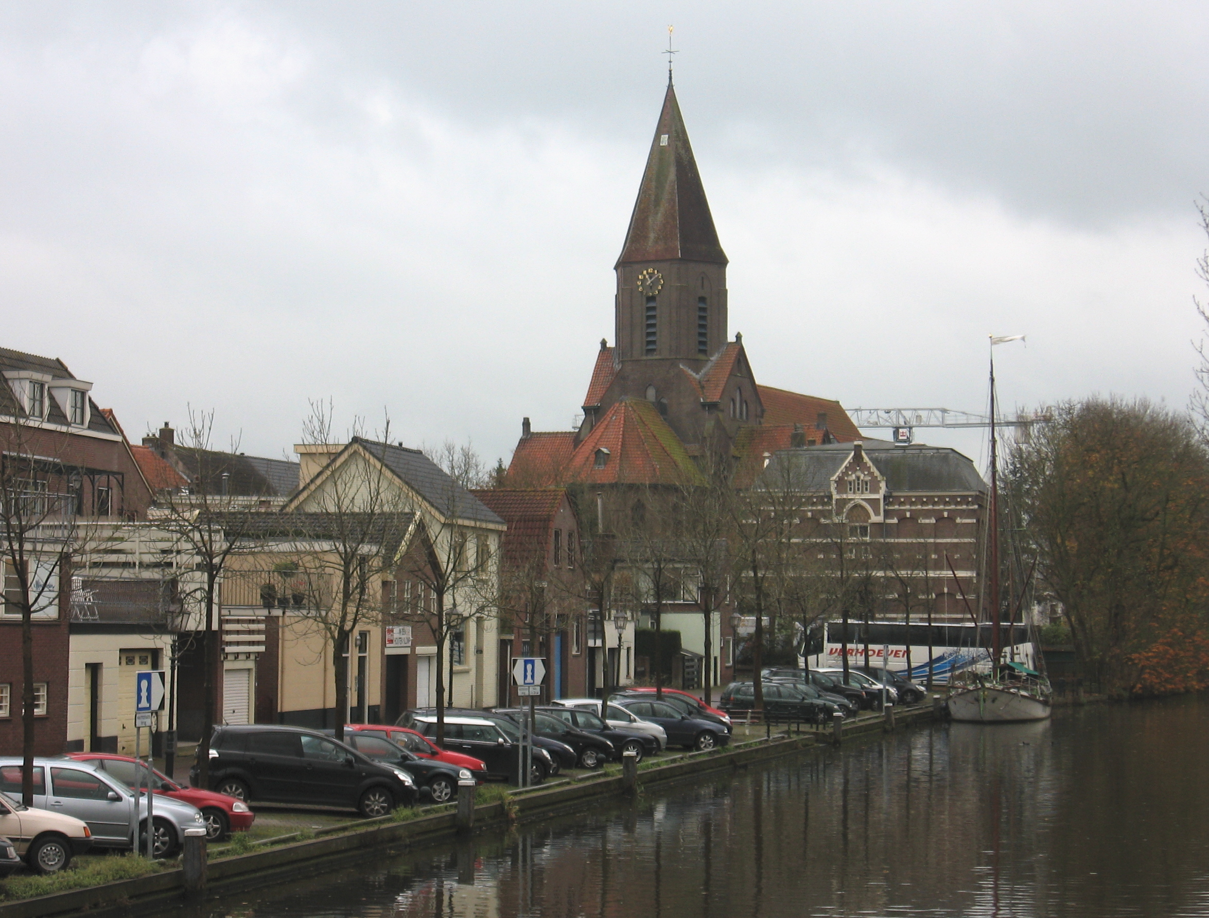 Montfoort